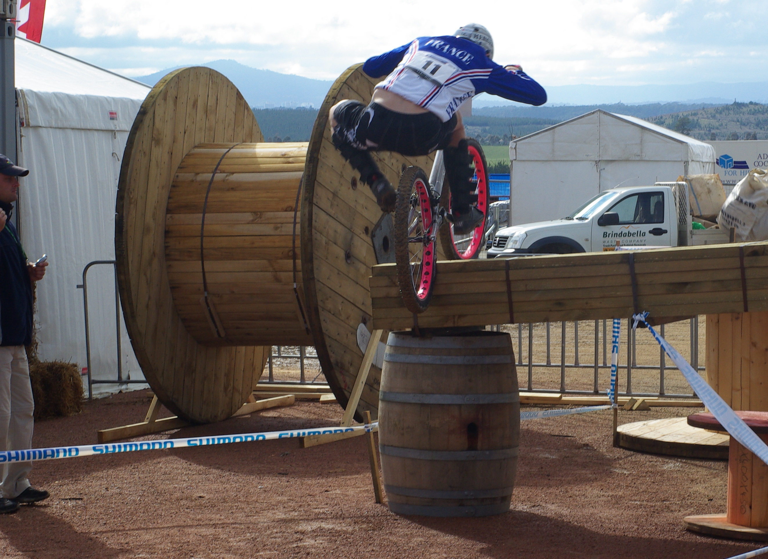 Competitor in the observed trials events at the 2009 UCI Mountain Bike & Trials World Championships held in Canberra, Australia.